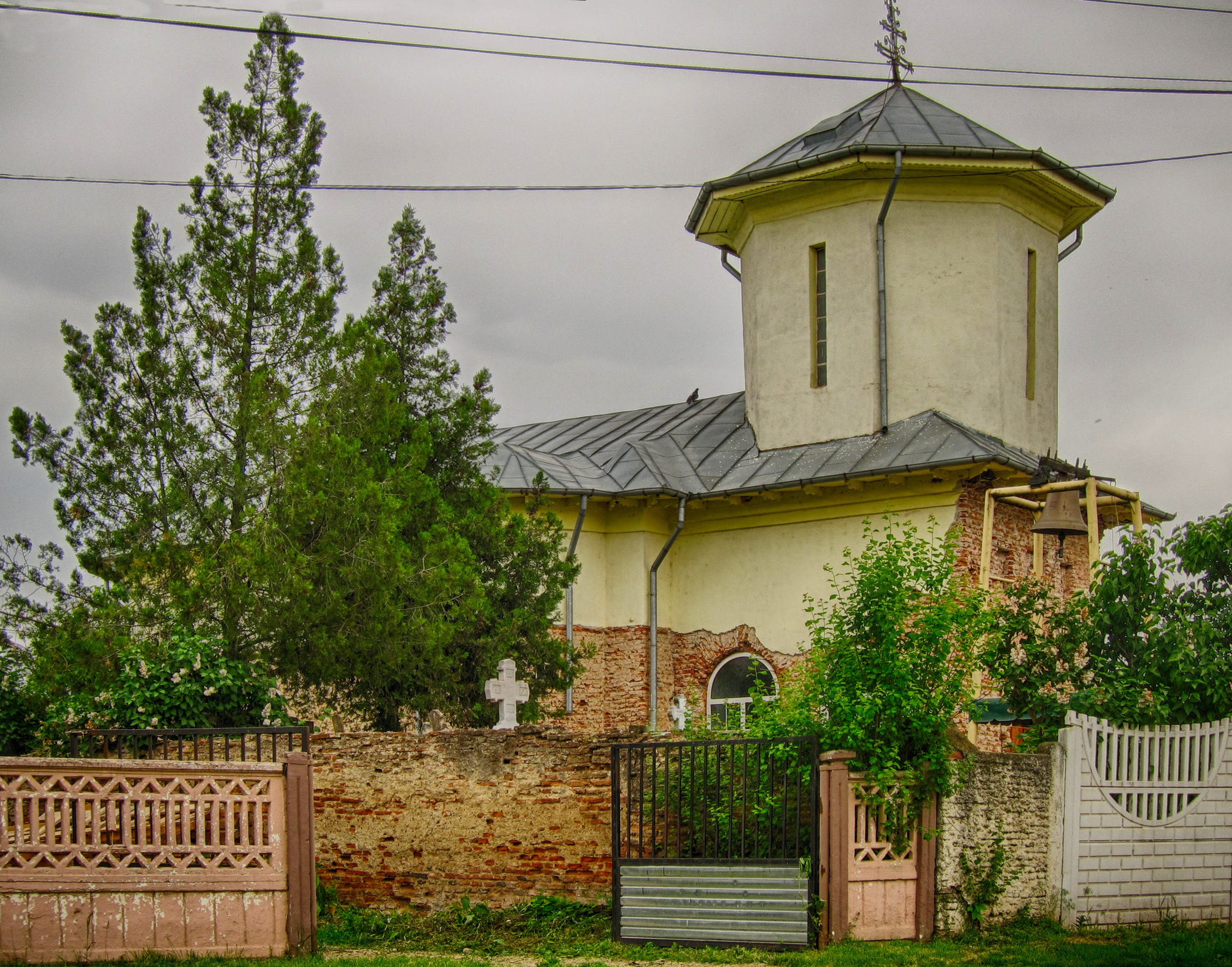 Church of the Assumption of the Virgin Mary in Petrăchioaia, Ilfov County, RomaniaRomână: Biserica „Adormirea Maicii Domnului” din Petrăchioaia, județul Ilfov, România